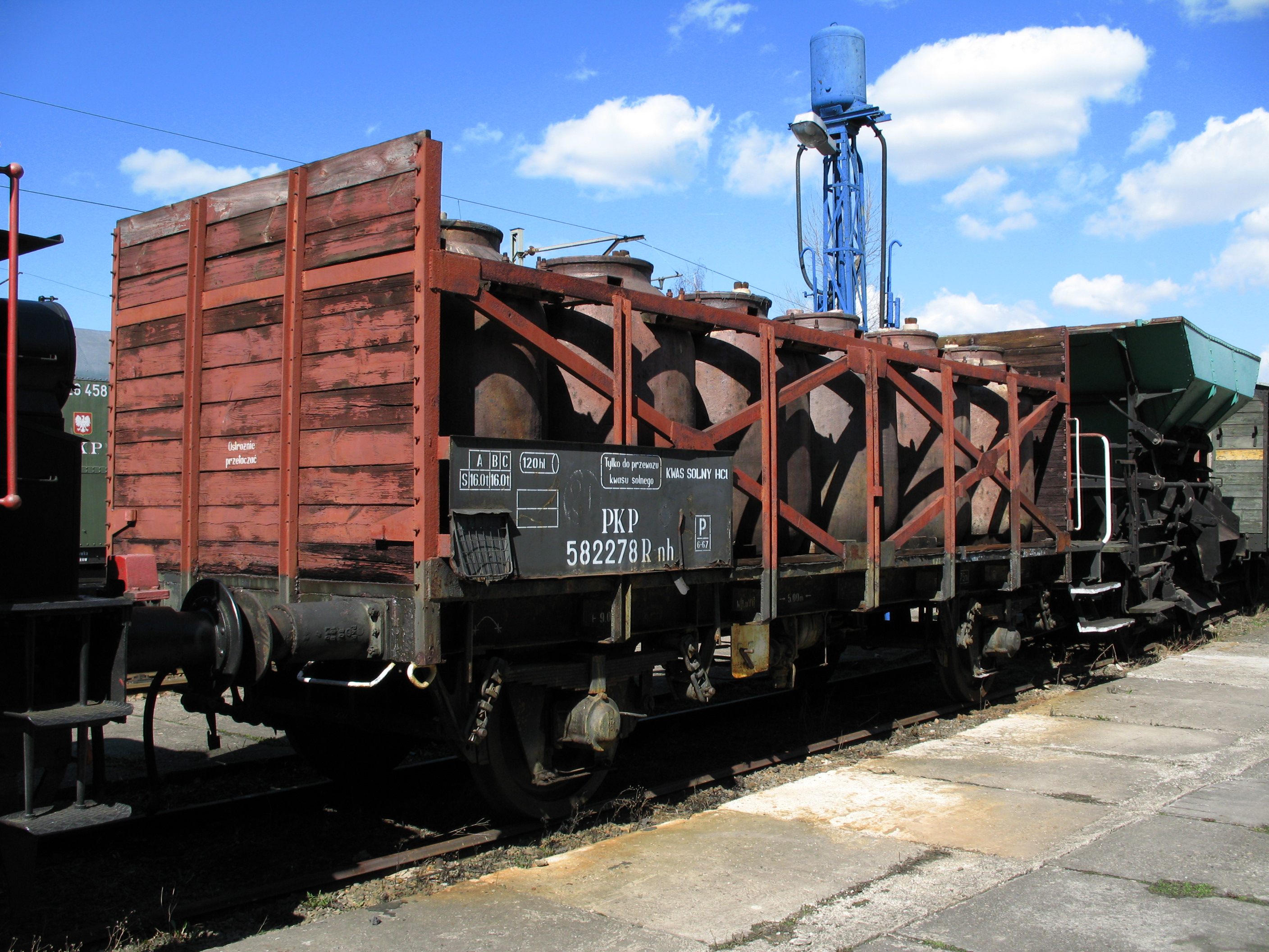 Specialized railway wagon for transporting hydrochloric acid, Chabówka railway museum